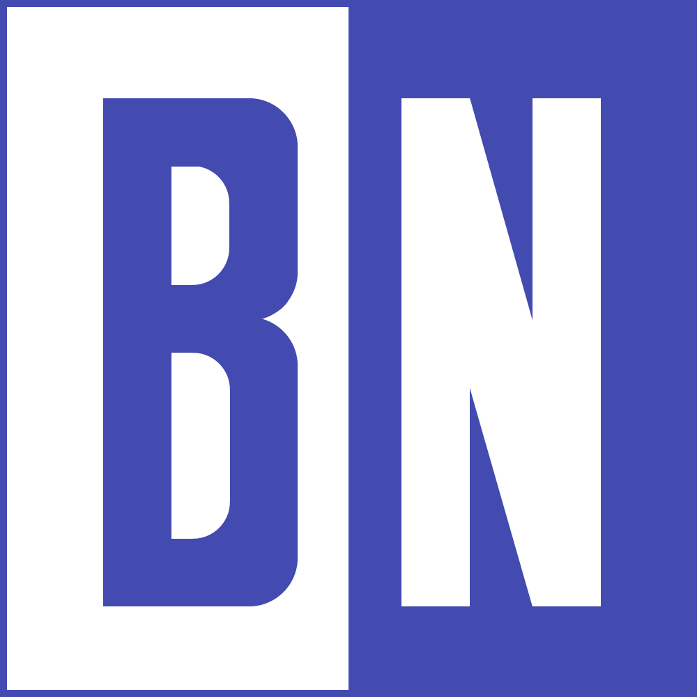 BN Logo created from scratch